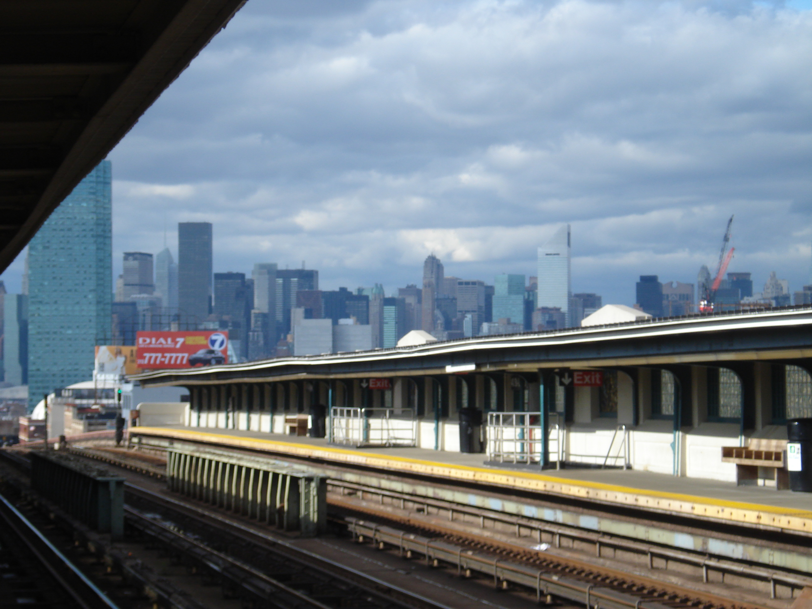 View of the city from 40 St.-Lowery subway platform in Queens